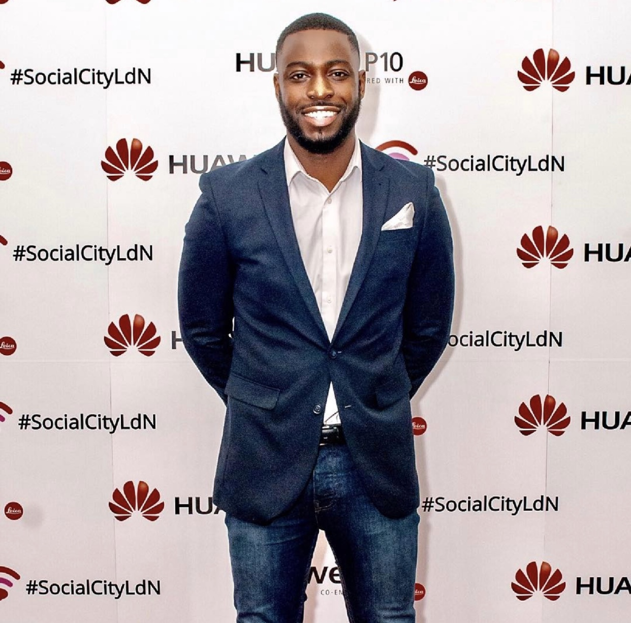 Samuel Brooksworth at an event in 2017